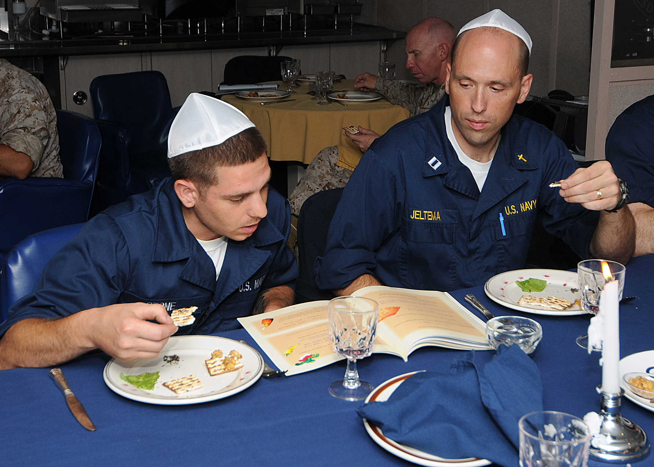 U.S. 5TH FLEET AREA OF RESPONSIBILITY (April 5, 2010) Lt. David J. Jeltema, right, from Bellflower, Calif, a Navy chaplain assigned to the amphibious dock landing ship USS Ashland (LSD 48), and Boatswain's Mate Seaman Michael A. Stone, from Wilmington, Del., read from the Haggadah, the religious text that sets out the order of the Passover Seder. Ashland is part of the Nassau Amphibious Ready Group, supporting maritime security operations and theater security cooperation operations in the U.S. 5th Fleet area of responsibility. (U.S. Navy photo by Mass Communication Specialist 2nd Class Jason R. Zalasky/Released)